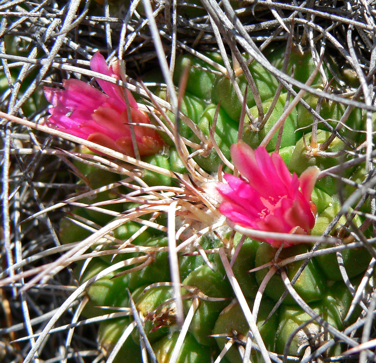 Mammillaria compressa at the University of California Botanical Garden, Berkeley, California